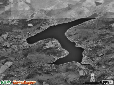 Harveys Lake Enviromapper image